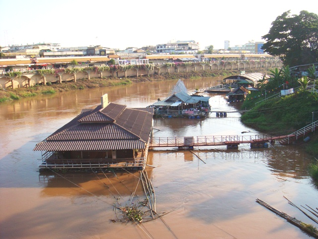 Traditional house-boats on the Nan river, Phitsanulok.